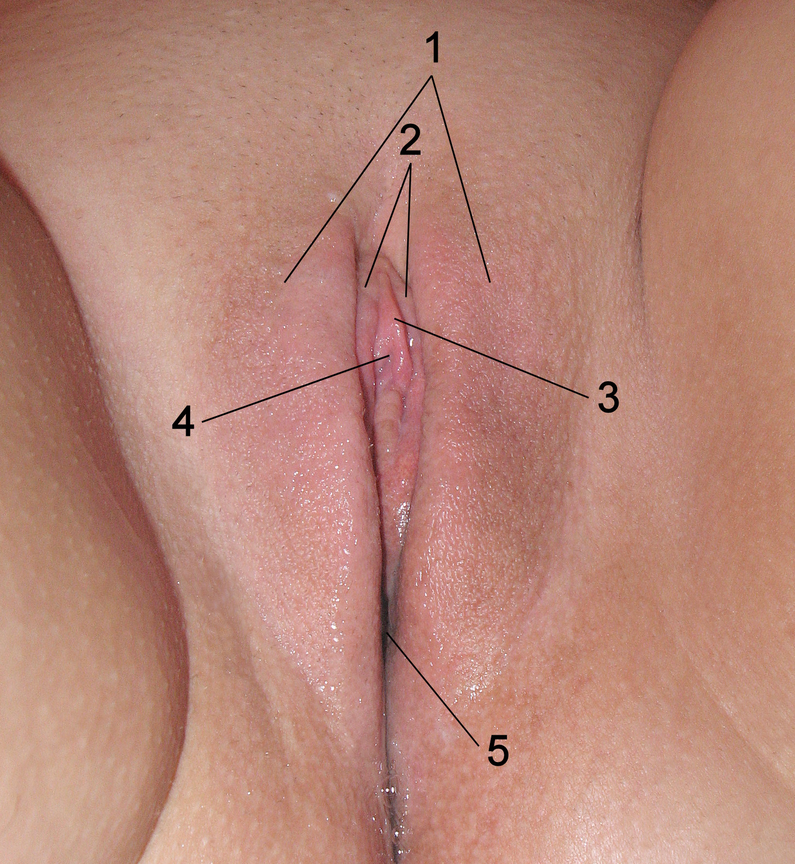 Labia majora Labia minora Clitoral hood (foreskin) Clitoral glans (under the clitoral hood) Vagina